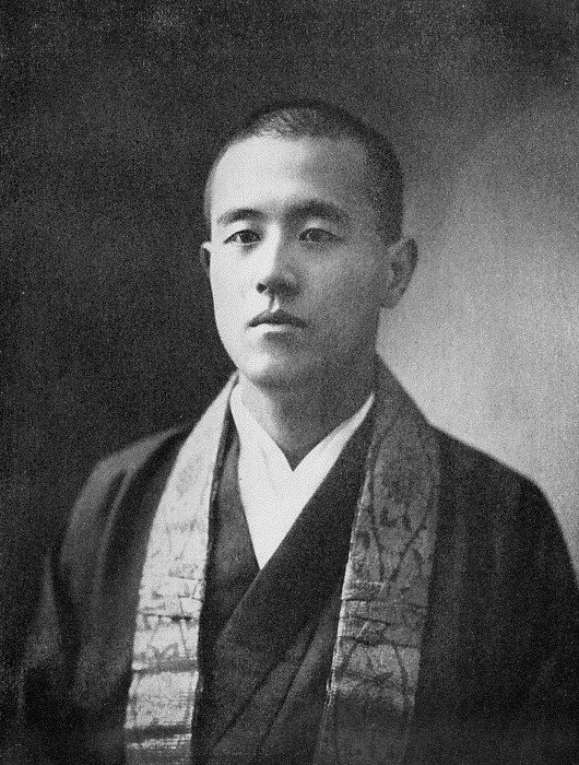 Kozui Otani